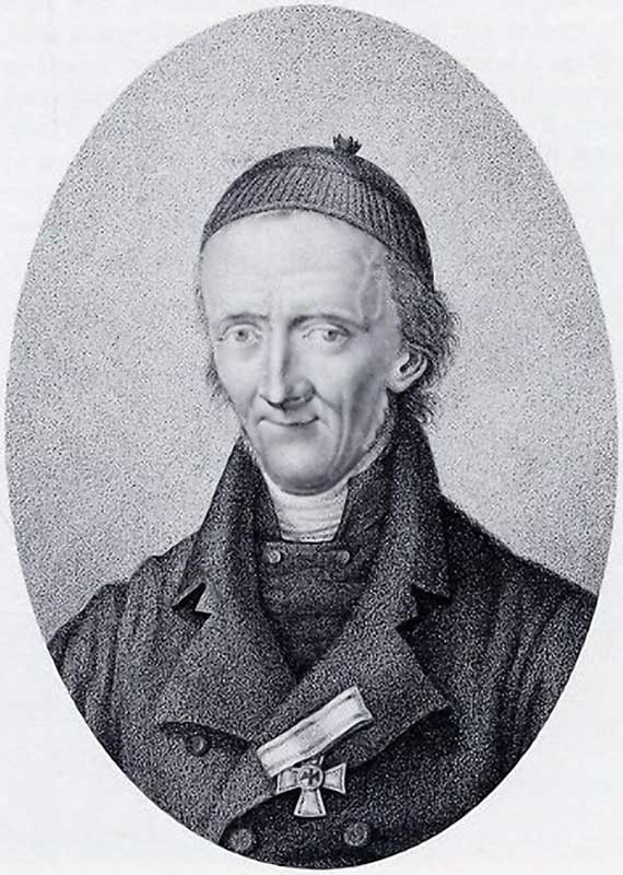 Georg Christian Knapp (1753-1825) Protestant theologian from Germany